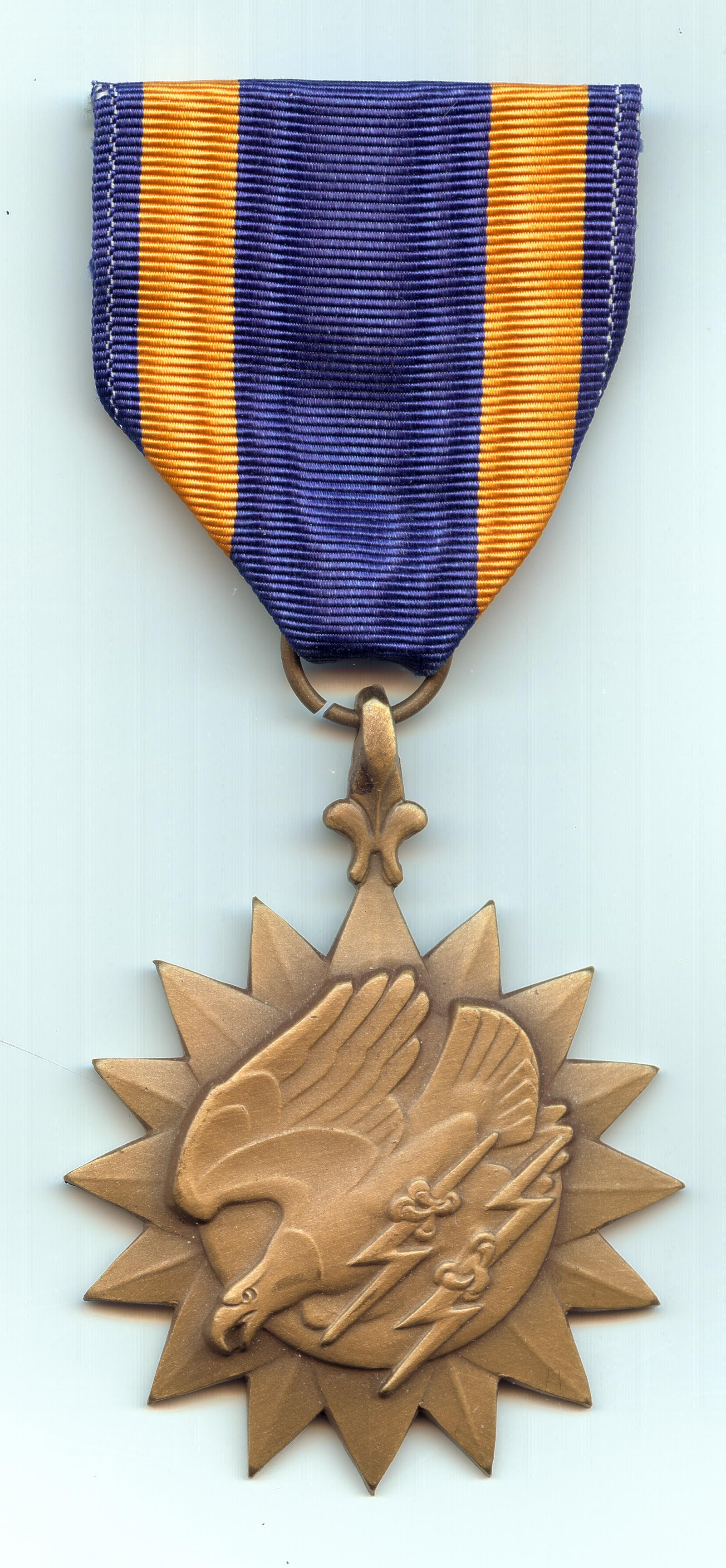 Air Medal - front side. From the American Heroes Museum collection. Recipient unknown.